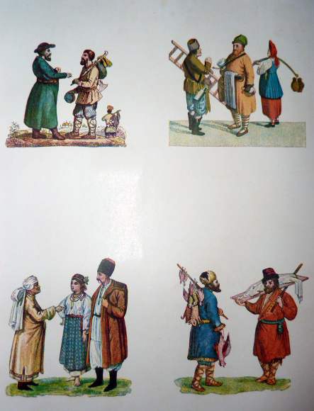 the type of russian peasants